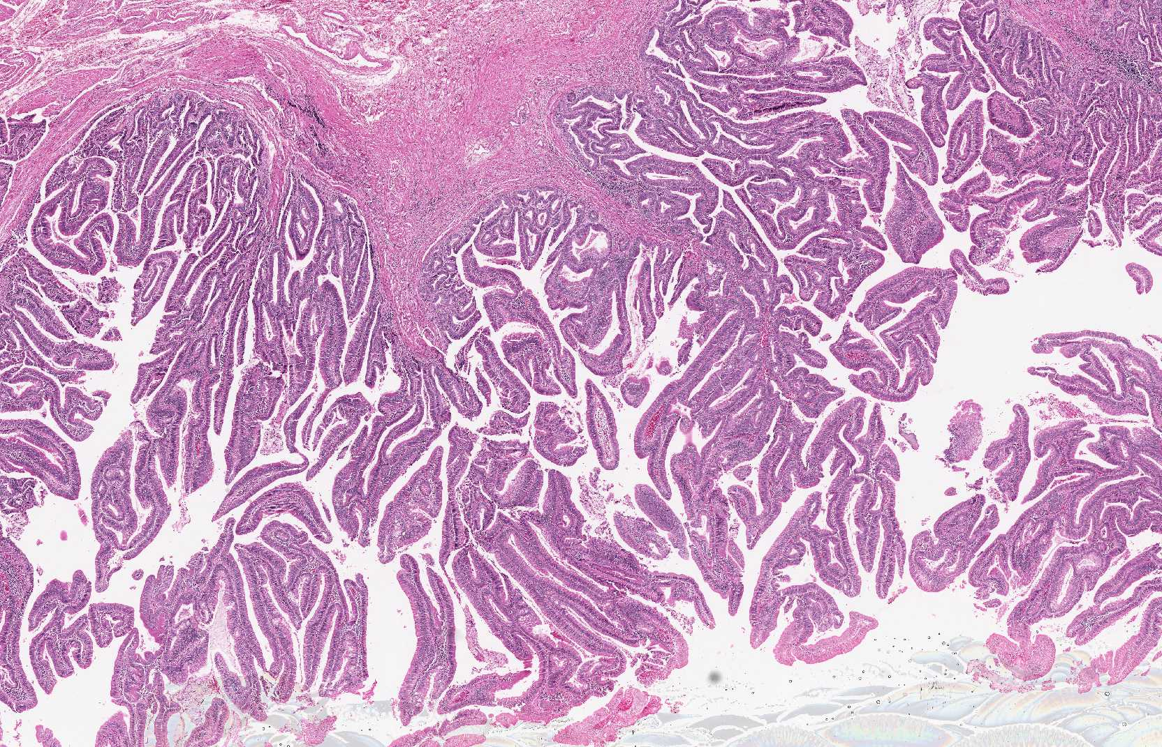 Microscopically the diagnosis of a villous adenoma is easily confirmed by observation of the enlarged glands containing enlarged cells with hypochromatic nuclei that are stratified and have a typical picket fence appearance and an obvious villous architecture.